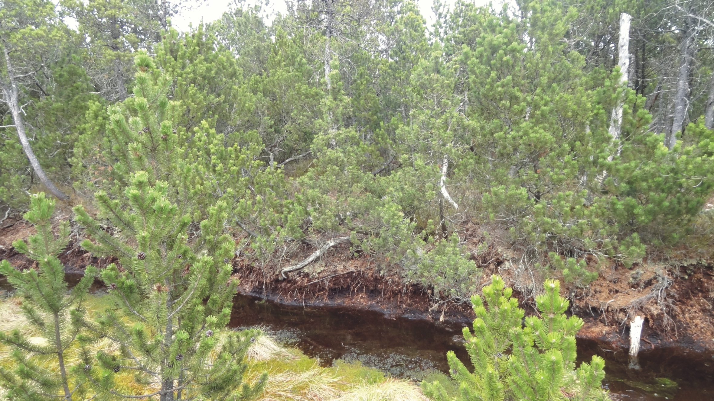 Nature reserve »Karlstifter Moore«, raised bog »Große Heide«, drainage ditch. This media shows the nature reserve in Lower Austria with the ID 33.